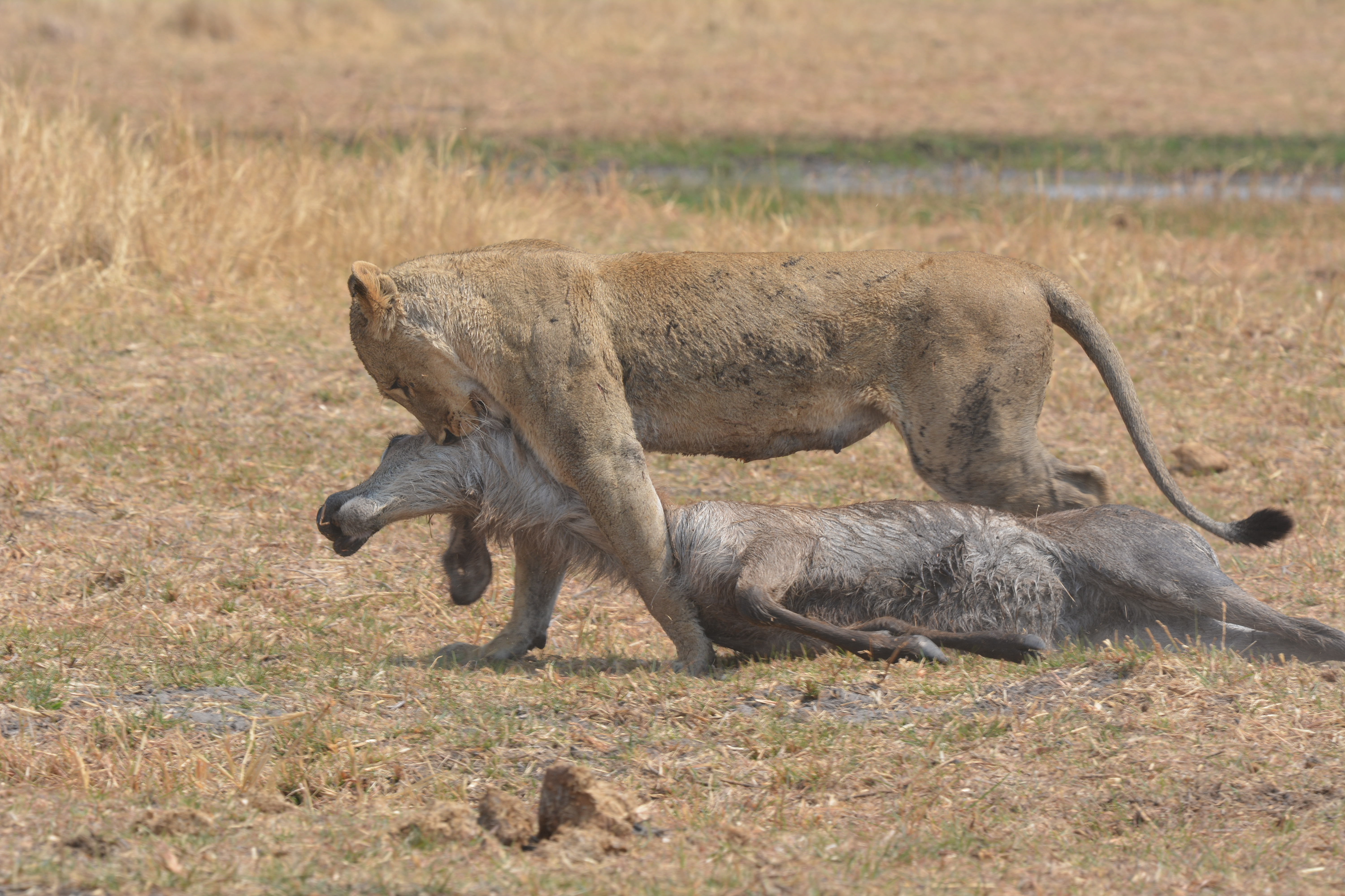 Picture taken in Botswana, in the Khwai area (Moremi Game Reserve) in August 2019.